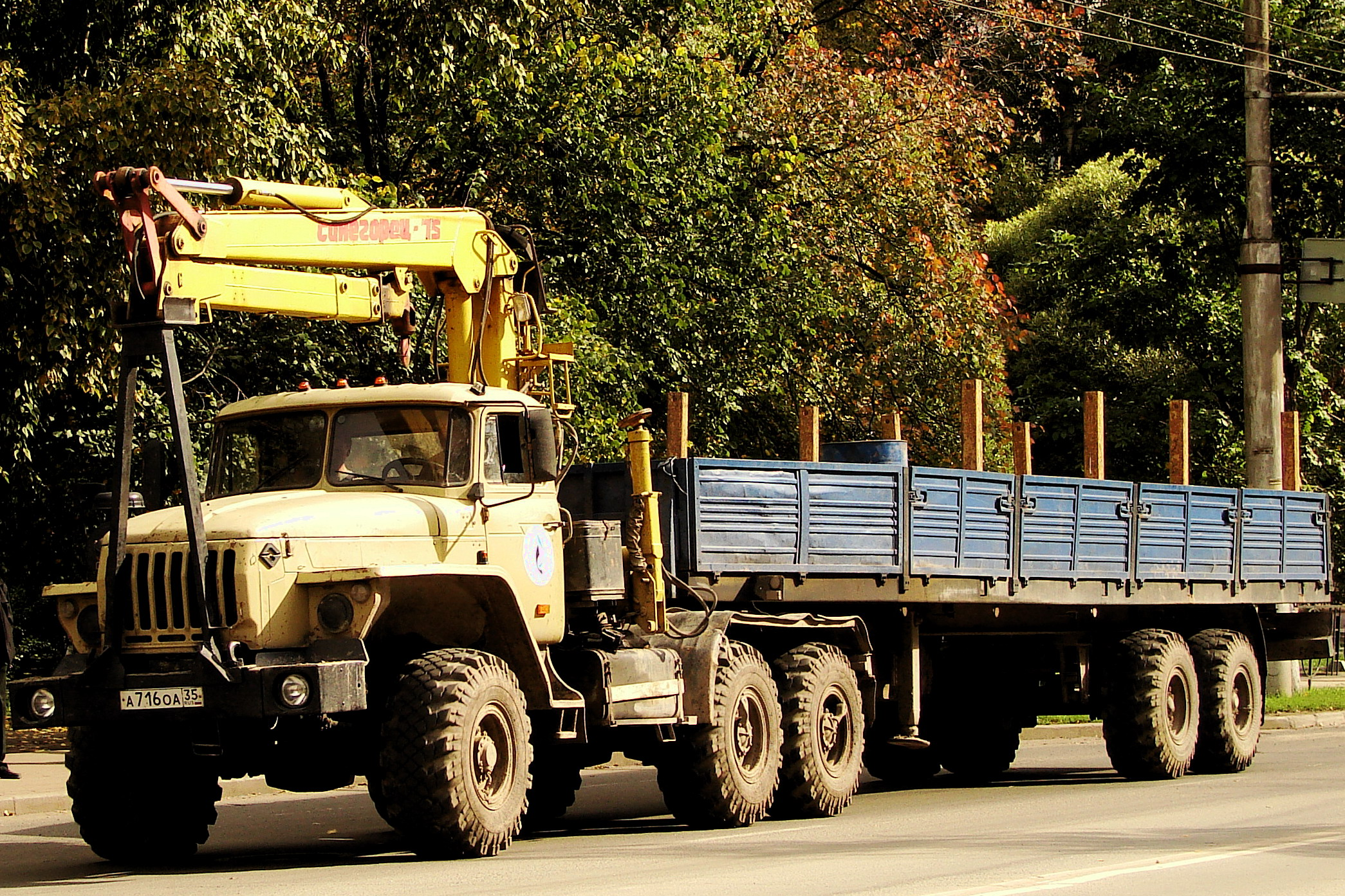 Russia, «Ural» vehicle with hydromanipulator «Sinegorets-75»